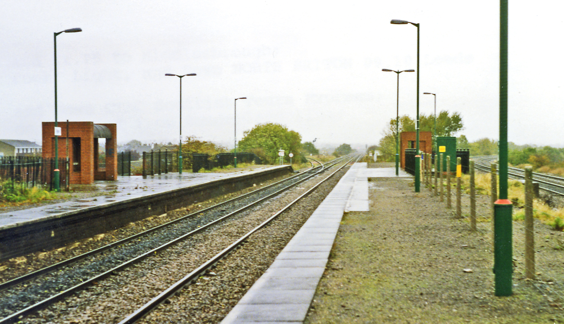 Filton (Junction) station, 1992. View northward: ex-GWR from Bristol, towards Avonmouth via Henbury (to left), Severn Tunnel and South Wales (in centre); to right Bristol Parkway, Swindon etc. and London, also Cheltenham and Birmingham via Yate. This is a grim relic of a station which was replaced later (11/3/96) by a new station at Filton Abbey Wood, ¼-mile to the south. Local trains on the line to Swindon had ceased since 11/9/61 and those to Avonmouth since 23/11/64.